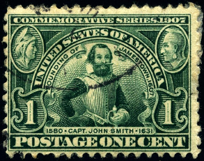 United States 1c stamp of 1907